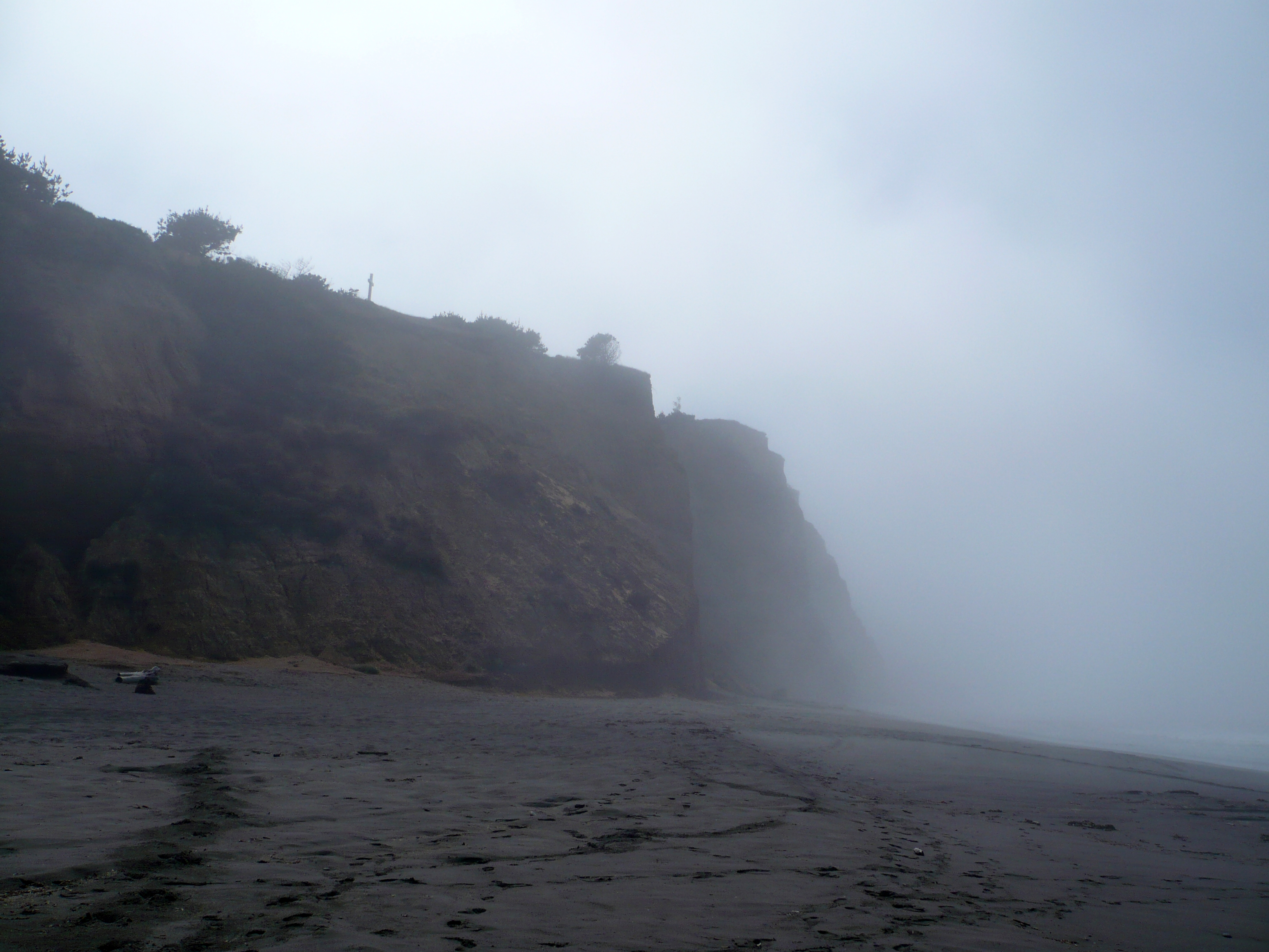 Centerville Beach Cross marks the location of the loss of the SS Northerner. In 1921, the Ferndale Parlor of the Native Sons of the Golden West placed a cross and marker on the hill overlooking Centerville Beach. The first marker was destroyed in the 1992 Cape Mendocino earthquakes. A new marker was placed and rededicated on February 11, 1995. The only approach is up an ATV trail on a nearly vertical cliff. California Historical Landmark Reference #173